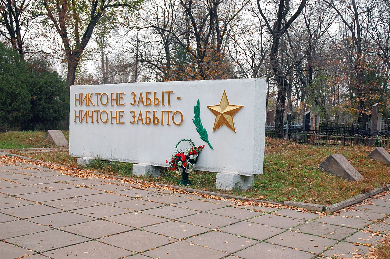 The military station, which buried - 1947 soldiers